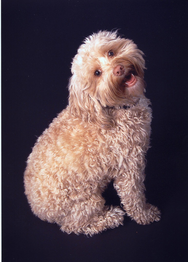 Two year old Cockapoo